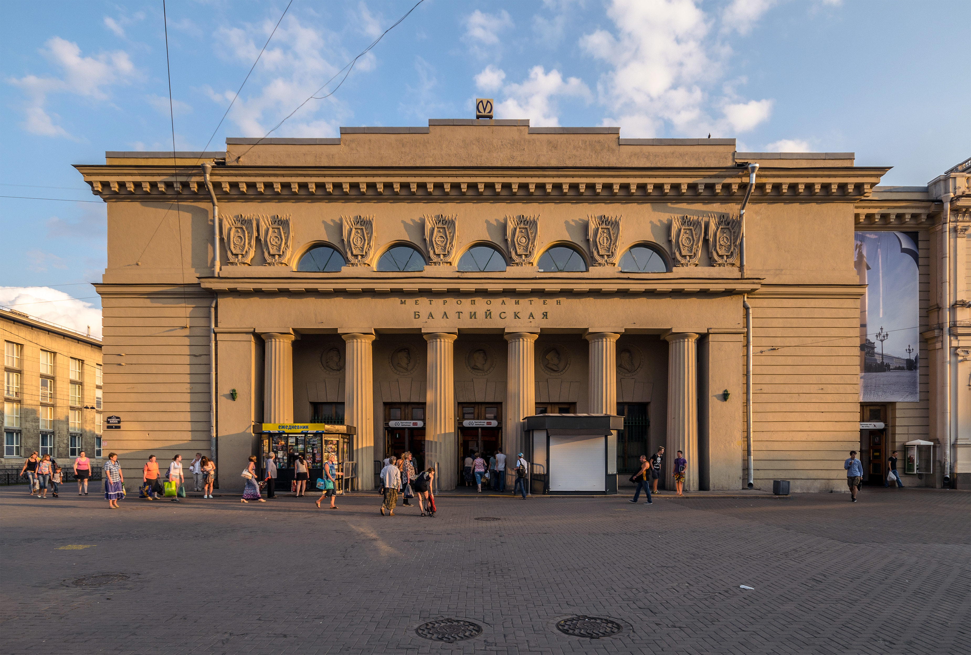 Baltyskaya station of Saint Petersburg Subway, Pavilion